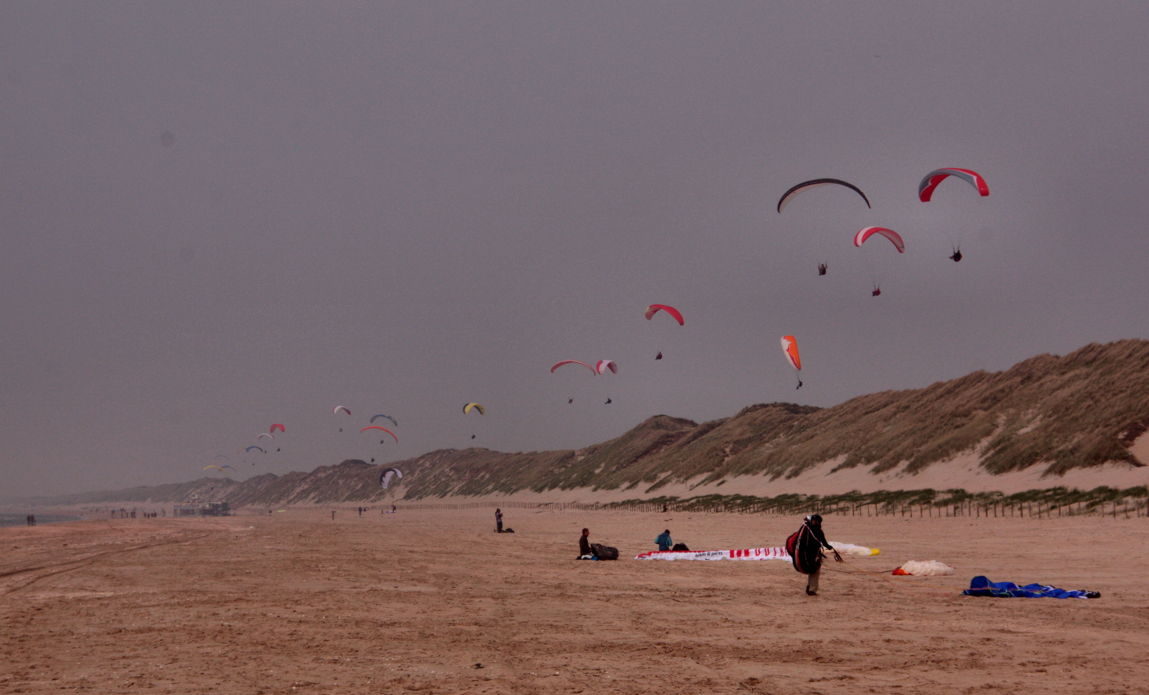 Paragliders soaring on the coast of Wijk aan Zee in the Netherlands